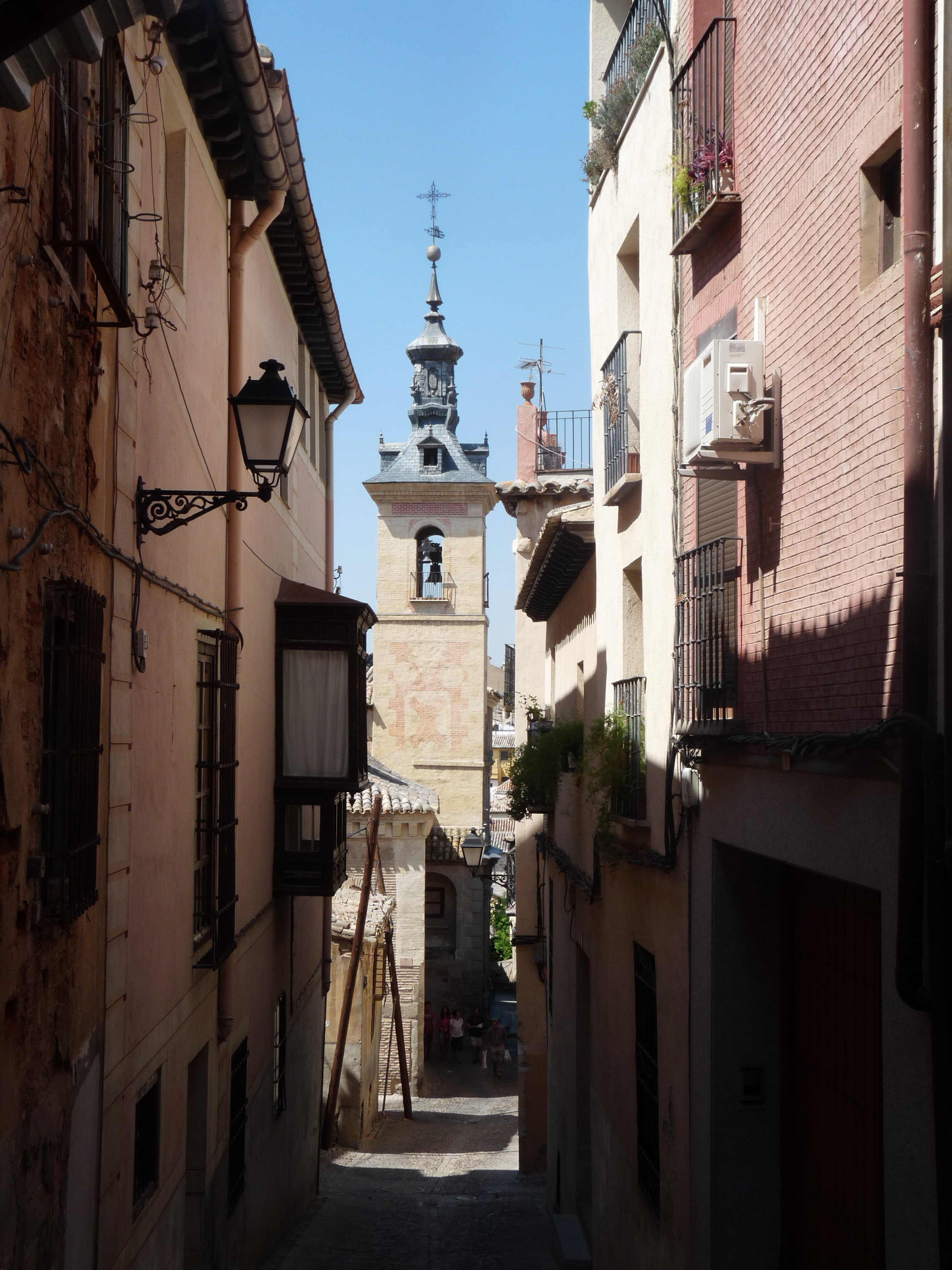 Church of San Justo, Toledo, province of Toledo, Castile-La Mancha, Spain.